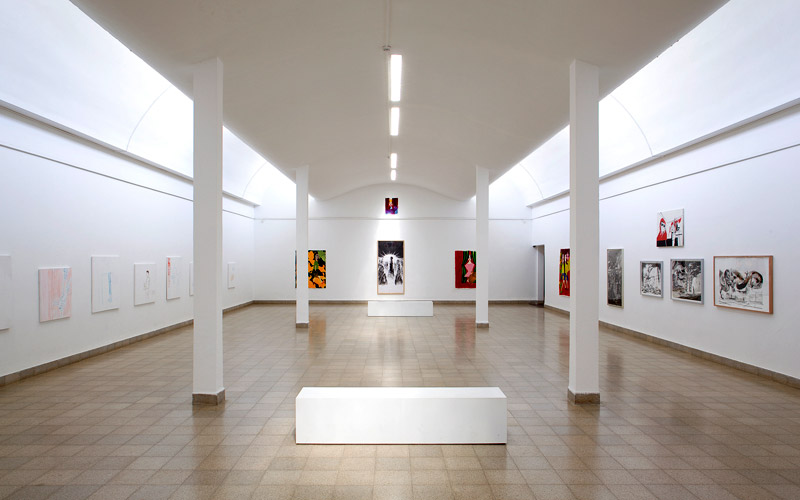 Ein Harod Museum exhibition hall, 2010